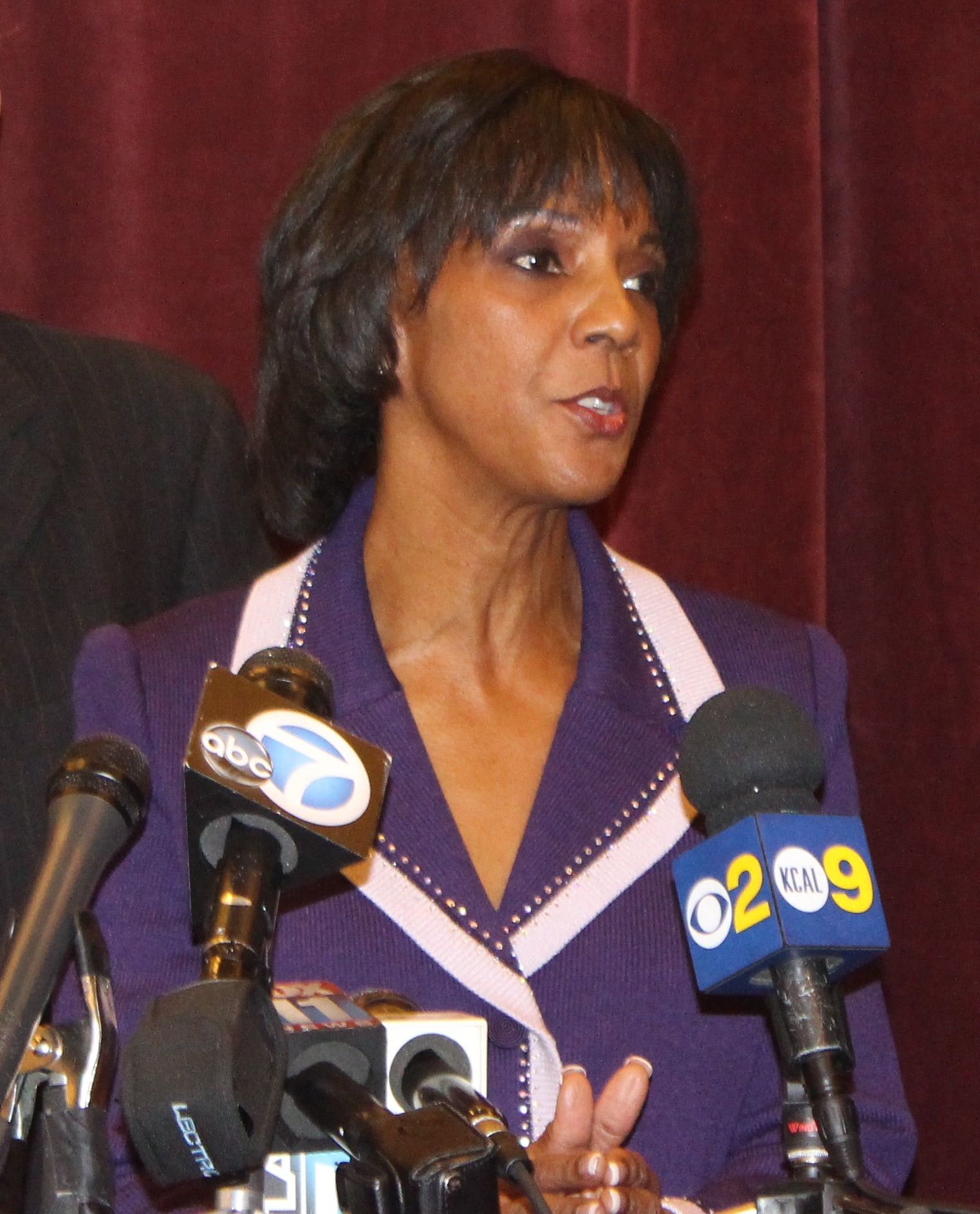 Jackie Lacey, Los Angeles County District Attorney